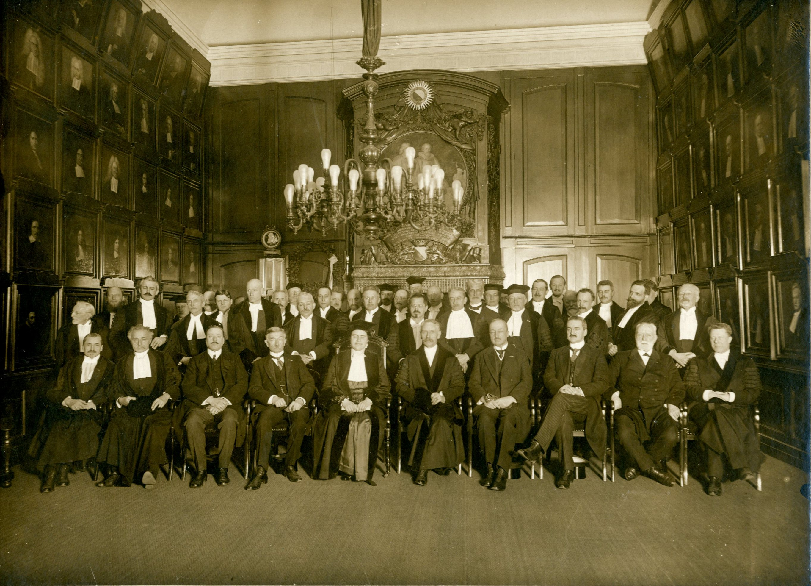 Faculty of Utrecht University, at the oration of Prof. Johanna Westerdijk, 10 Febr. 1917. Front row, from left to right: Willem Molengraaff, Pieter van Romburgh, Alex graaf van Lijnden van Sandenburg, Alexander Frederik baron van Lijnden, Johanna Westerdijk, rector Pieter Helbert Damsté, Arthur Eduward Joseph baron van Voorst tot Voorst, Joachimus Pieter Fockema Andreae, Hendrik Wefers Bettink, Hendrik Zwaardemaker. Standing, left to right: Martin Theodoor Houtsma, Jan Rudolph Slotemaker de Bruine, Arie Noordtzij, David Simons, Johann Frantzen, Hermann Jacques Jordan, Bonifacius Christiaan de Savornin Lohman, Herman Snellen Jr., Ewoud van Everdingen, Jan de Louter, Friedrich Went, Ernst Cohen, Bernard Jan Hendrik Ovink, Hugo Frederik Nierstrasz, Jan Frederik Niermeijer, Willem Cornelis de Graaff, Herman Theodorus Obbink, Albert Antonie Nijland, Willem Caland, Johannes Wilhelm Pont, Jan de Vries, Willem Kapteyn, Hugo Visscher, Christiaan Eijkman, Johan d' Aulnis de Bourouill, Willem Vogelsang, Hugo Rudolph Kruyt, Willem Julius, Arnoldus Johannes Petrus van den Broek, August Adriaan Pulle, Hendrik Bolkestein, onherkenbaar persoon, Charles Henri Hubert Spronck.